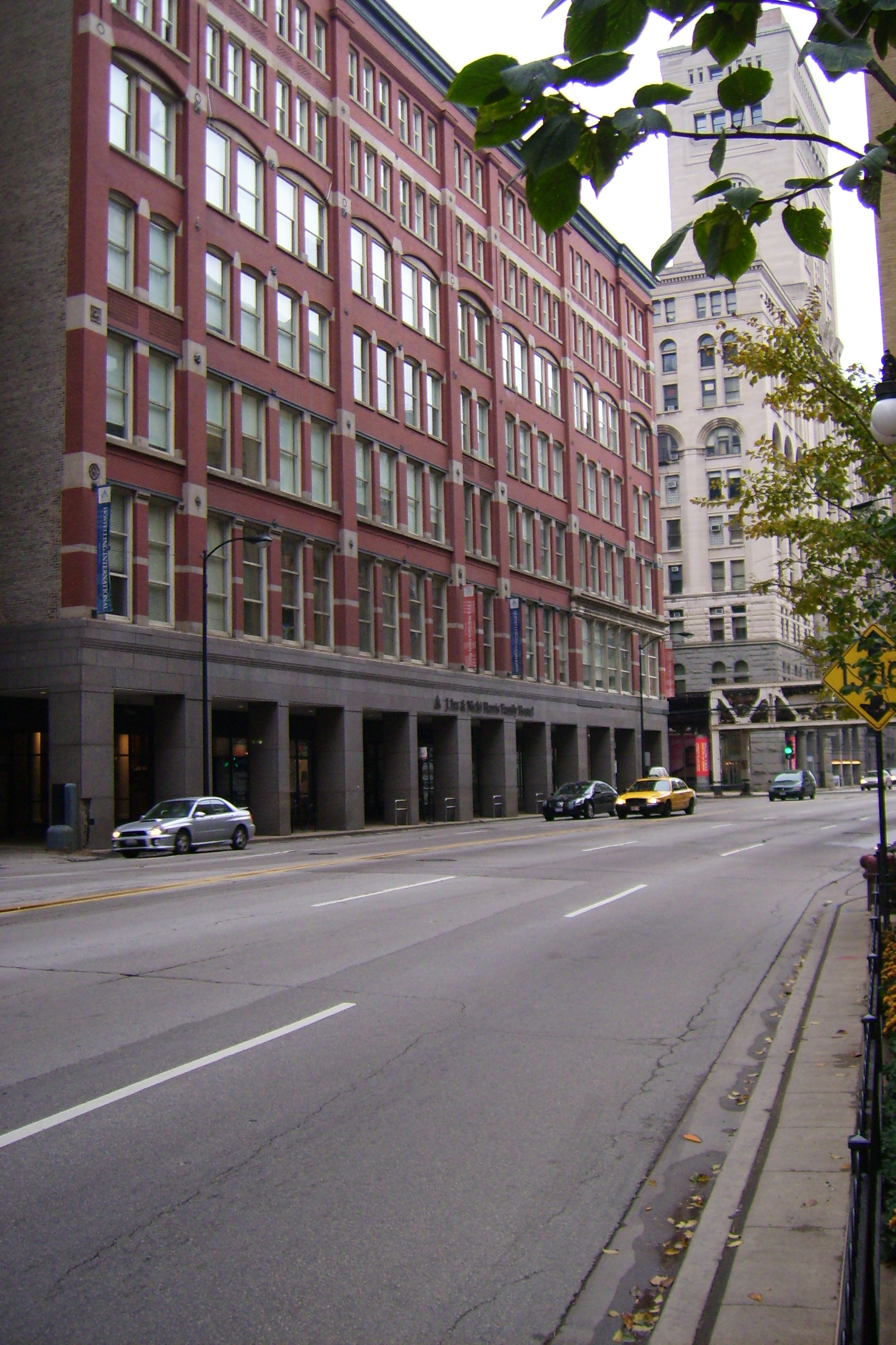 "The J. Ira & Nicki Harris Family Hostel", HI-Chicago located on 24 East Congress Parkway, Chicago, Illinois 60605